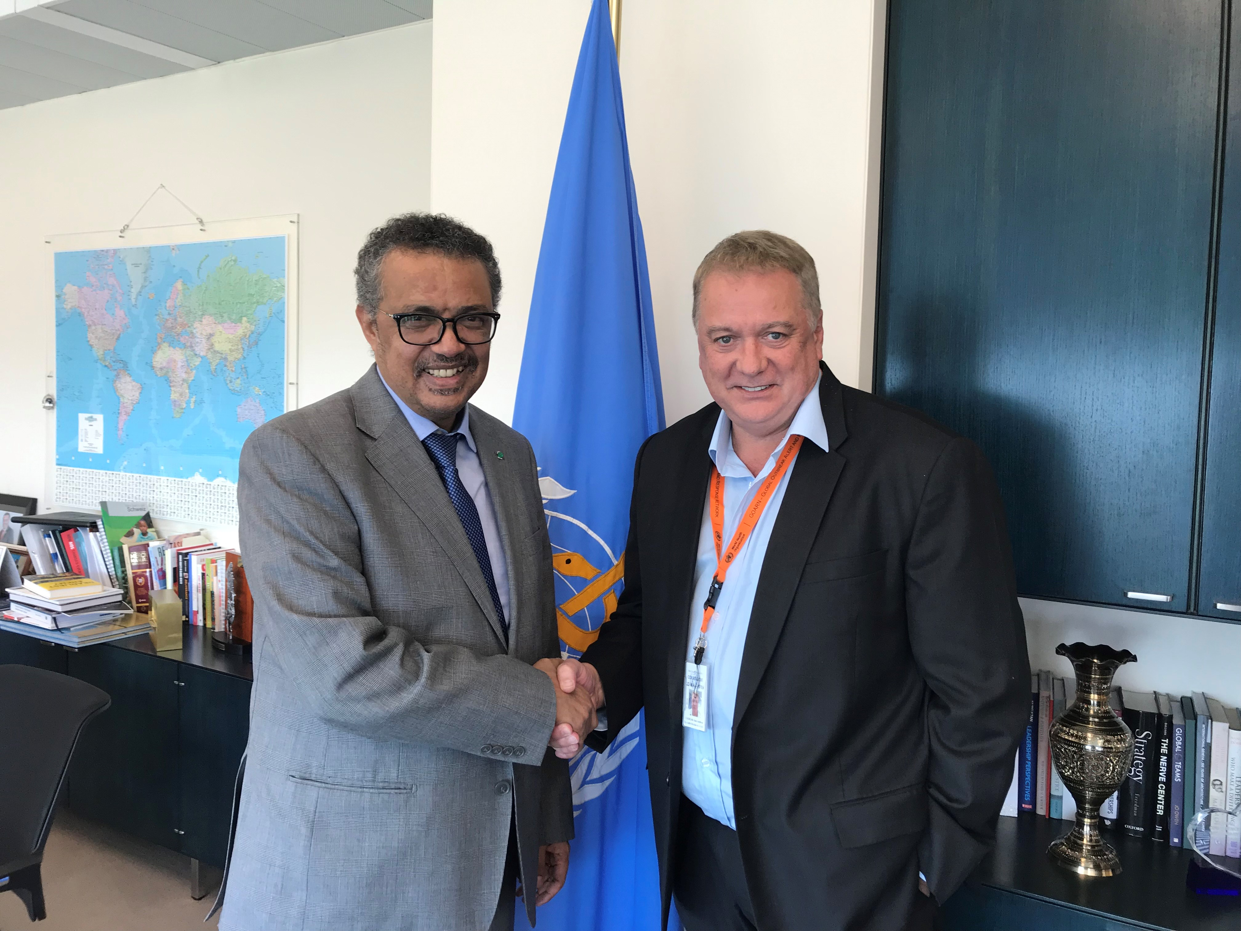 Prof Dale Fisher with WHO Director-General Tedros Adhanom